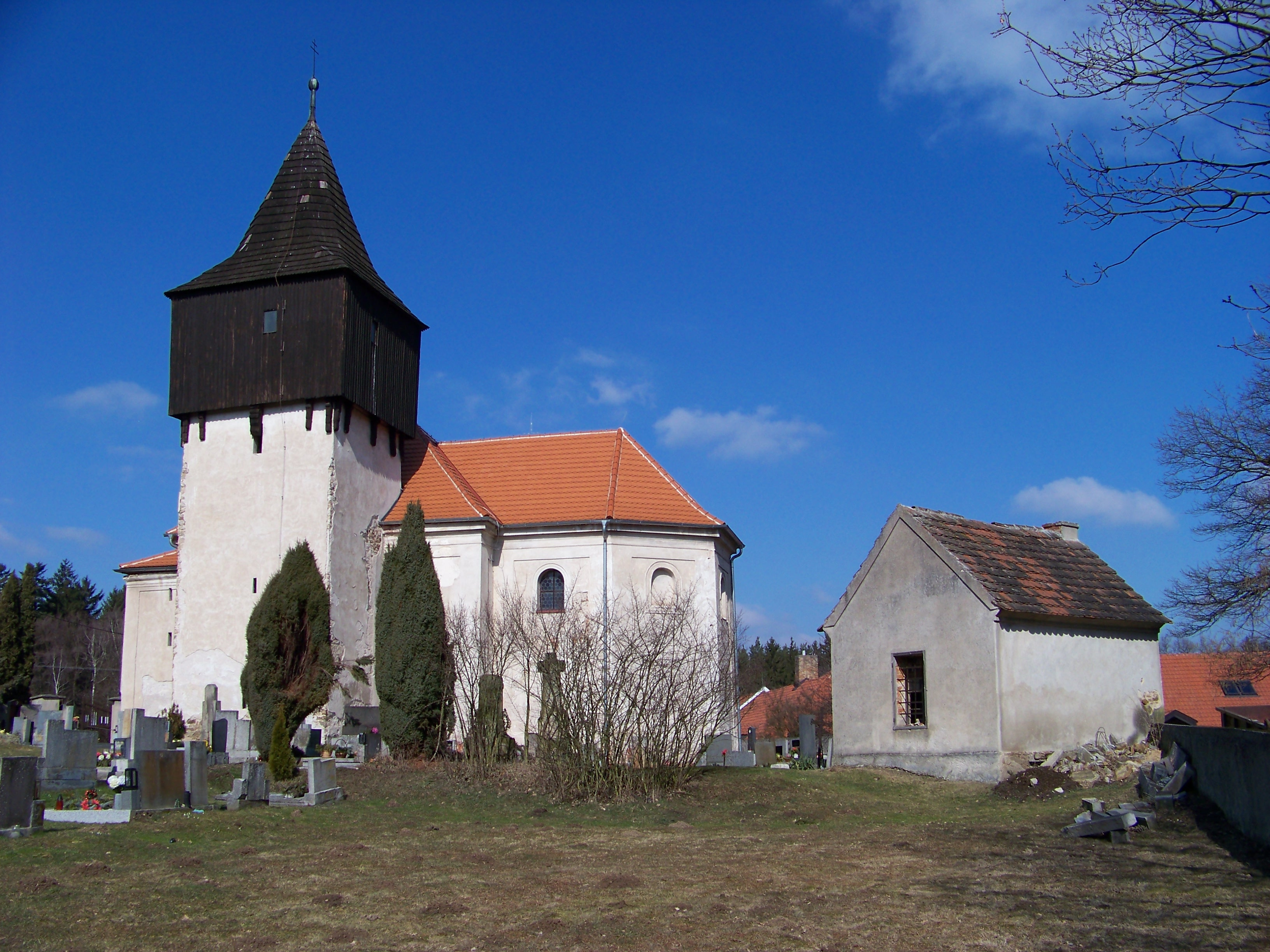 Chlístovice, Kutná Hora District, Central Bohemian Region, the Czech Republic. Church of Saint Andrew at the Sion.